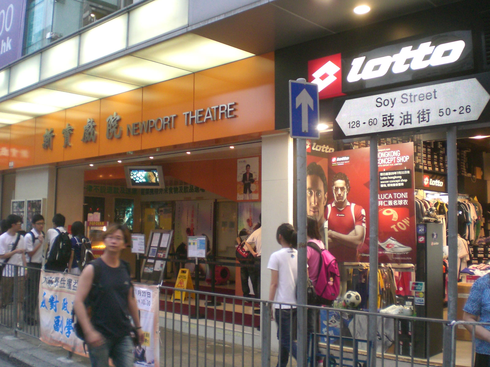 旺角zh:新寶戲院